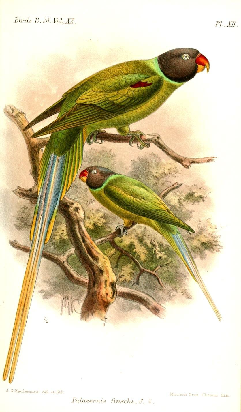 Palaeornis finschi = Psittacula finschii, Grey-headed Parakeet